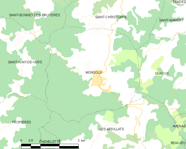 Map of French municipality